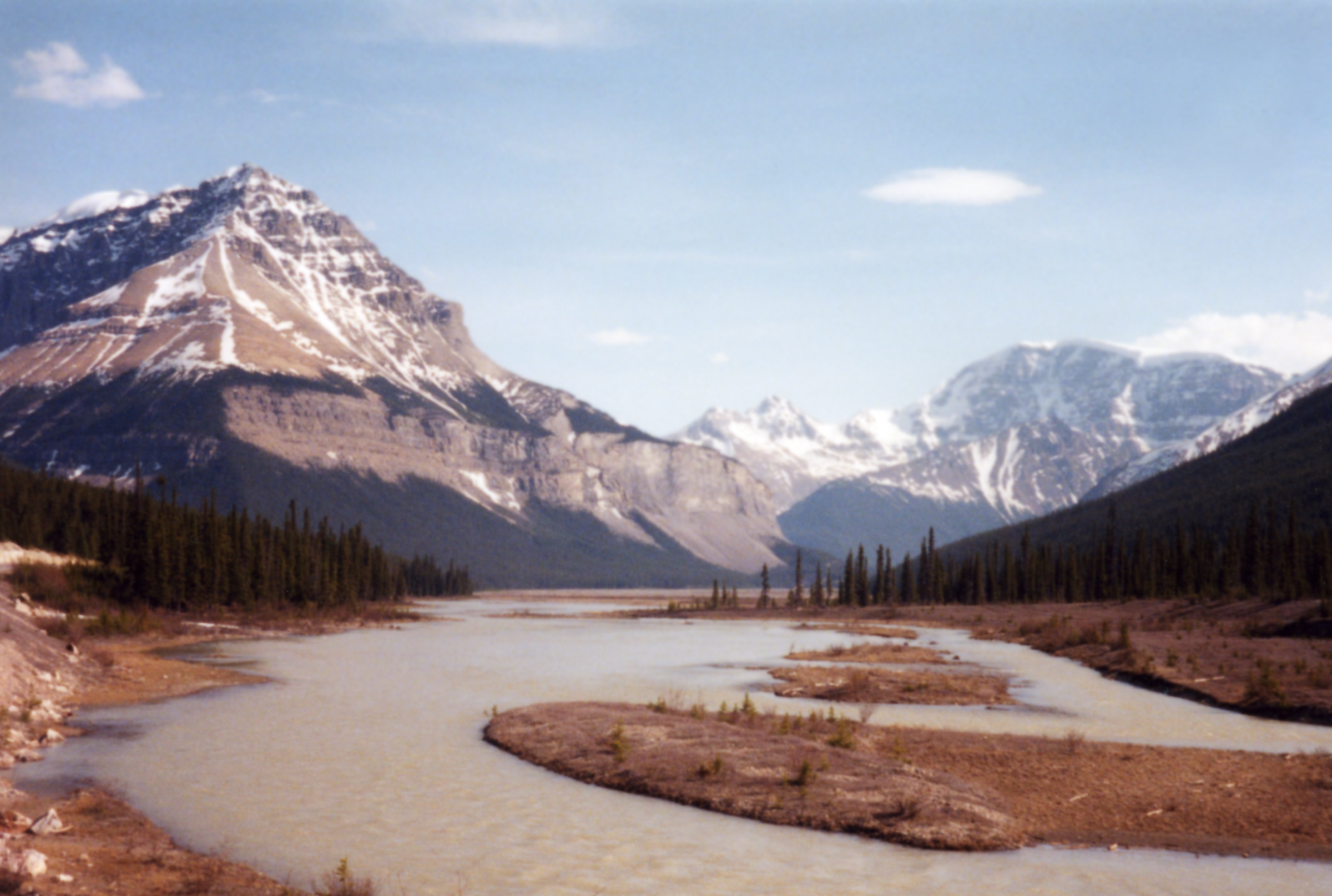 Athabasca River, along the Icefields Parkway, in Jasper National Park. This is NOT the Athabasca River in Jasper but the SUNWAPTA RIVER. The Sunwapta River joins the Athabasca further downstream and THEN the Athabasca runs parallel to HWY 93.